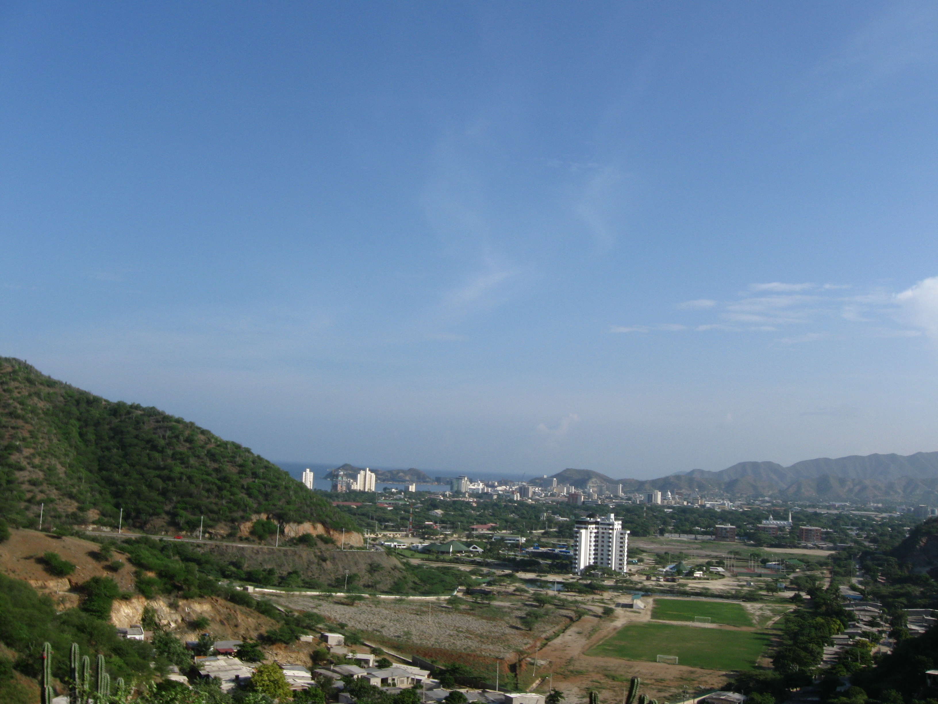 Panoramic of Santa Marta from the road to Rodadero